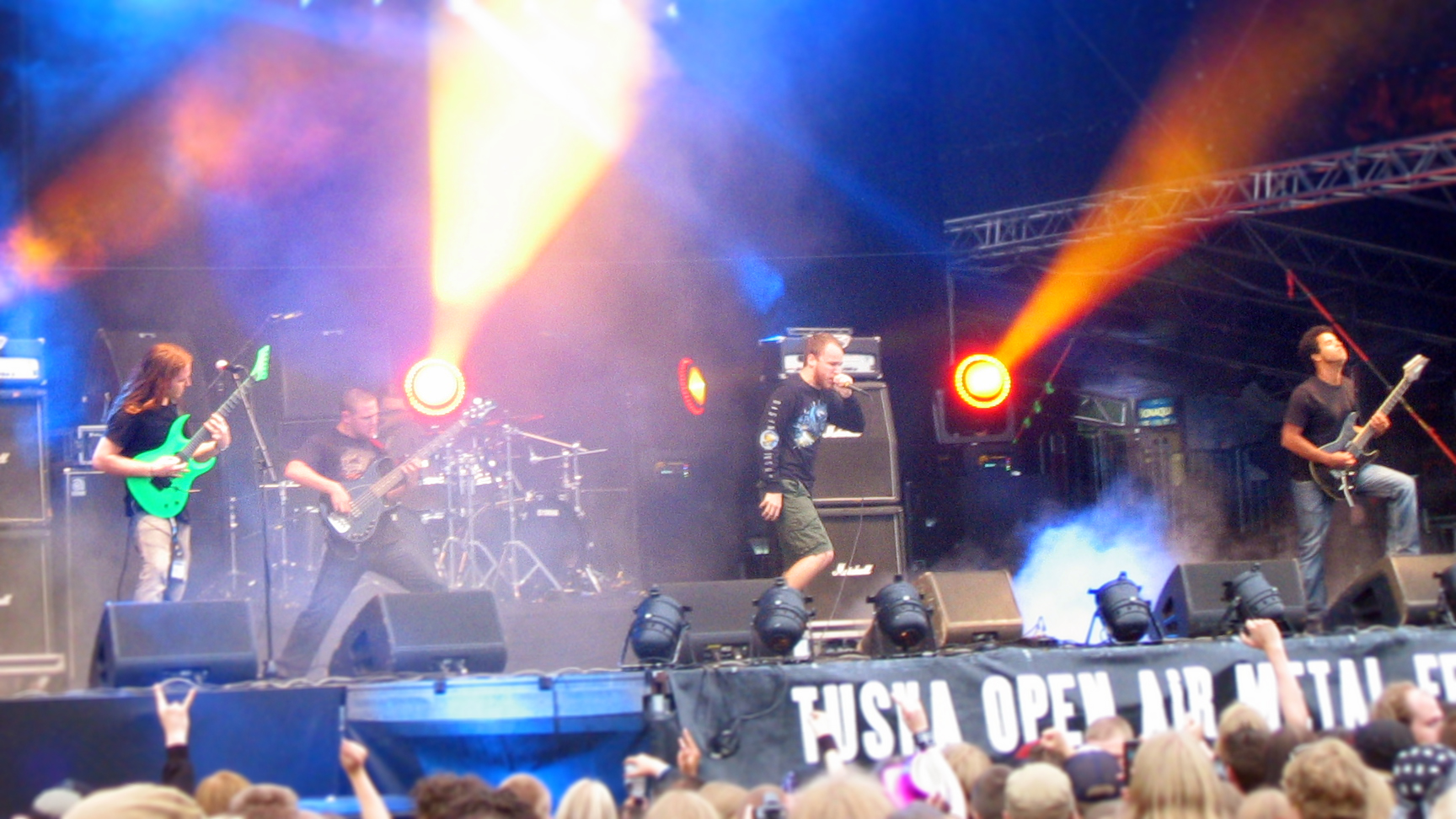 The Faceless playing at Tuska Open Air Metal Festival